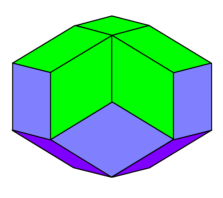 Image of Rhombic icosahedron